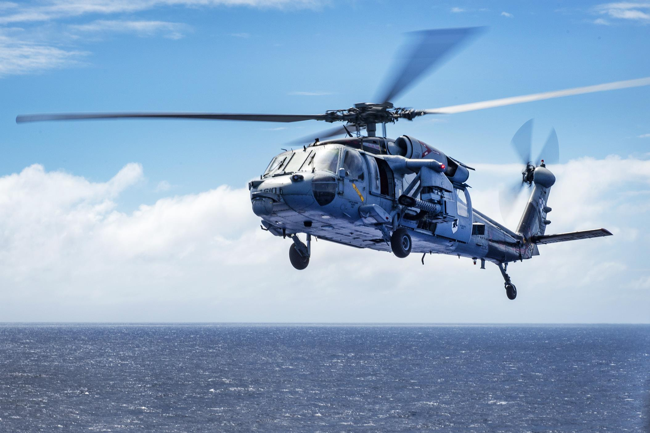 An MH-60S Seahawk helicopter participates in a training exercise near the aircraft carrier USS Carl Vinson In the Pacific Ocean, Jan. 29, 2017